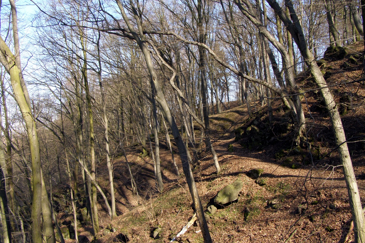 Třebíč-Styřečka. Krajíčkova stráň (public park)